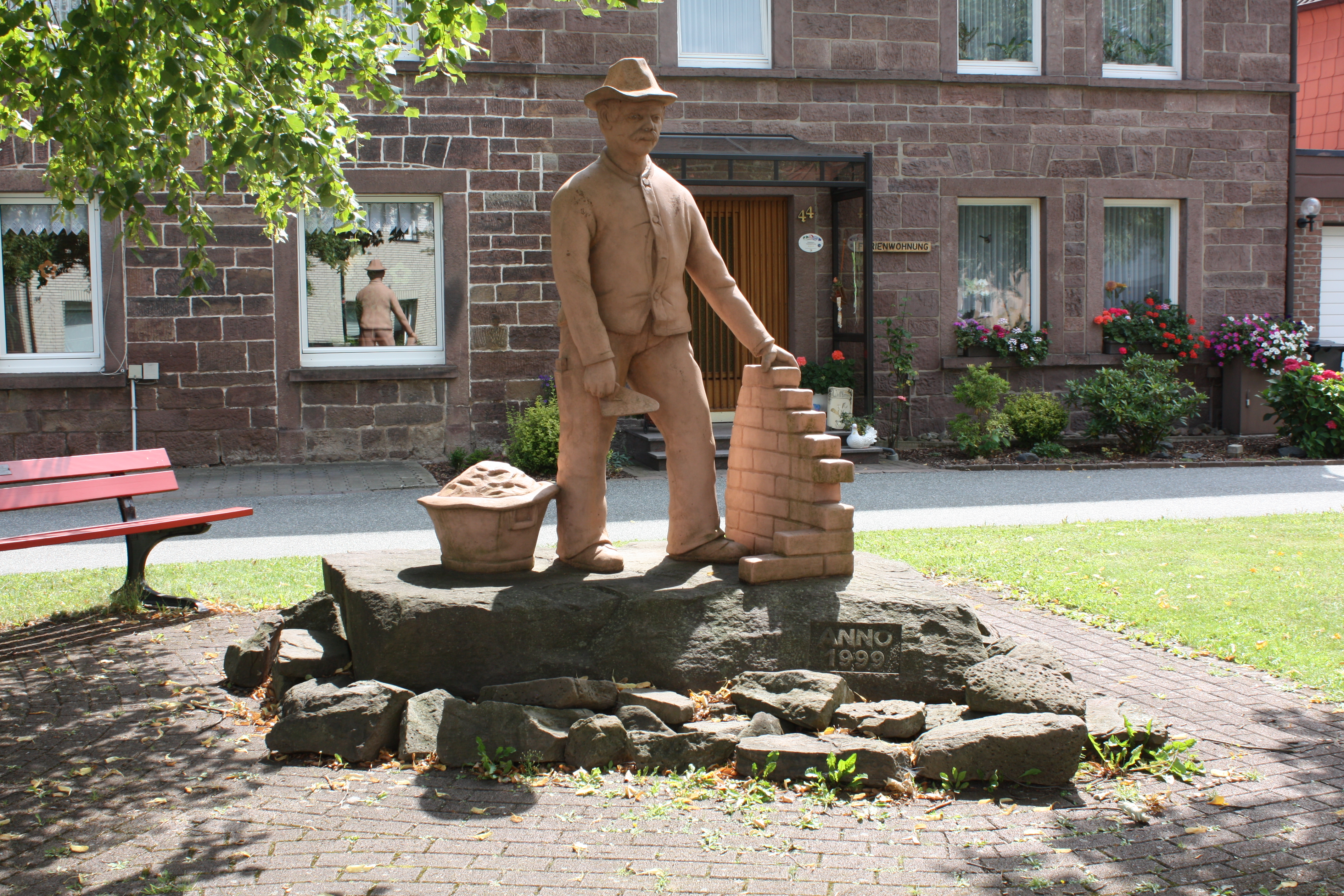 Maurerdenkmal in Höxter-Lüchtringen A geocoded location could be added to this image. Visit Commons:Geocoding for information on how to add coordinates. Beta-test: Add coordinates helps to determine coordinates.